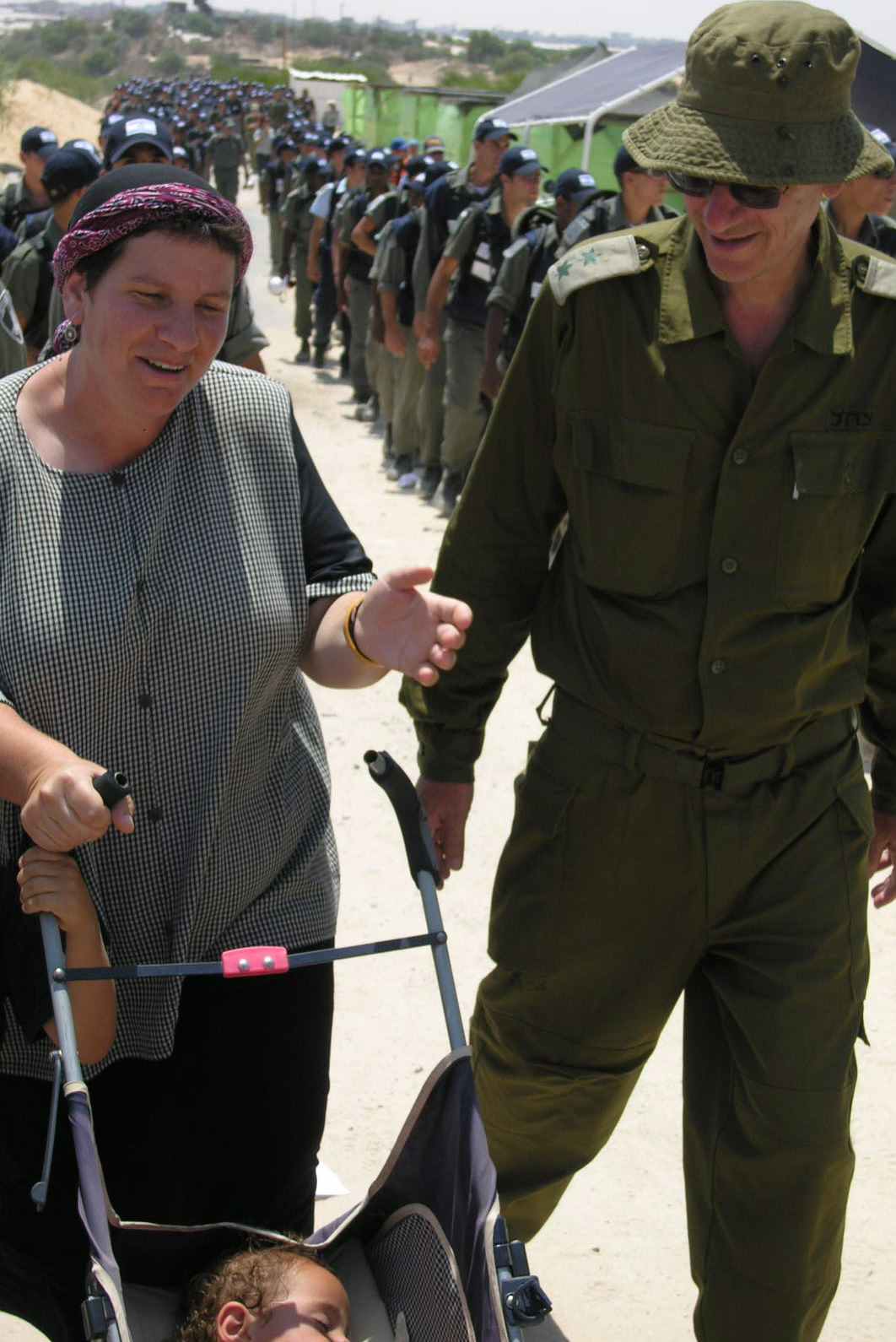 August 17, 2005. Residents of Atzmona held a ceremony for the closing of the pre-military preparatory program in the town. Many soldiers were present during the ceremony. The evacuation of Atzmona pictured was part of the Gaza disengagement in the summer of 2005.